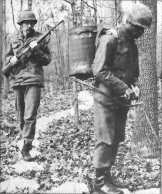 Polyurethane foam minefield bridging device.